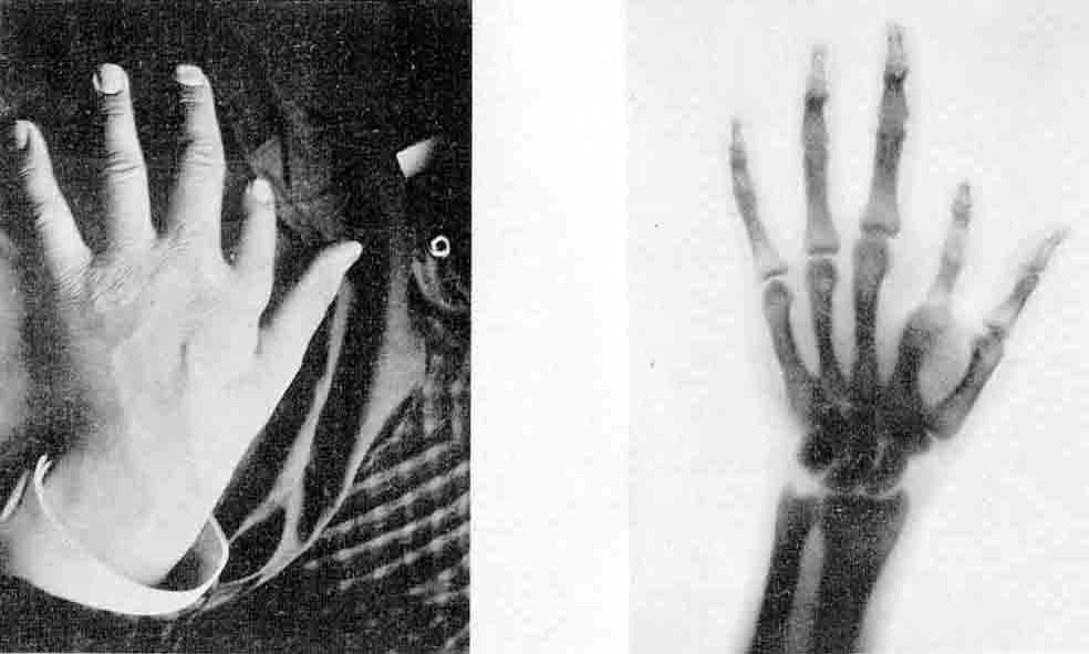 One of the first medical images of X-ray use. Publised in 1896 in "Nouvelle iconographie de la Salpétrière" (Tome 9; plaque XXI). Left shows a deformity in the hand. Right shows same hand seen with X-Ray.